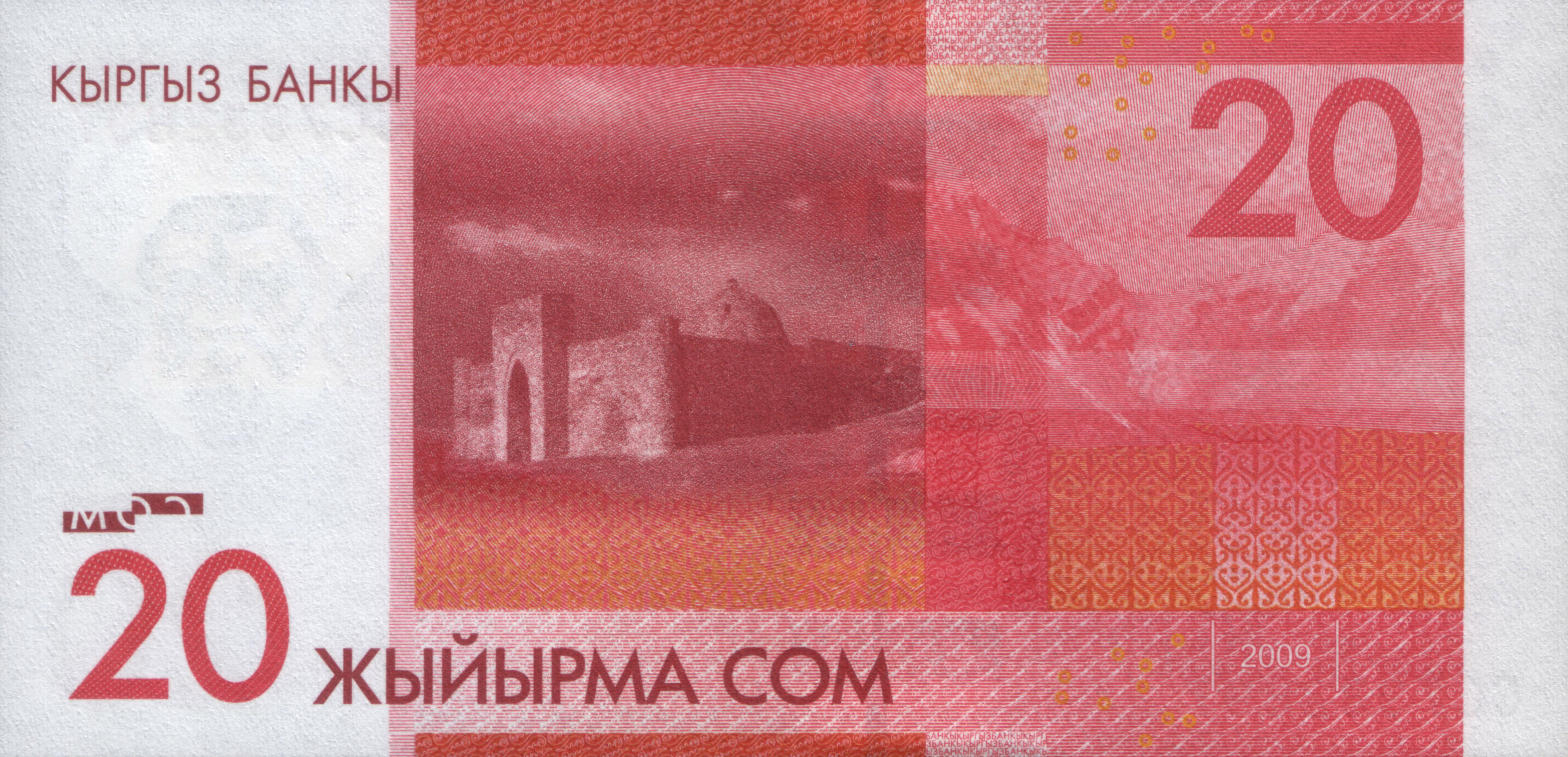 20 som of Kyrgyzstan (2009)